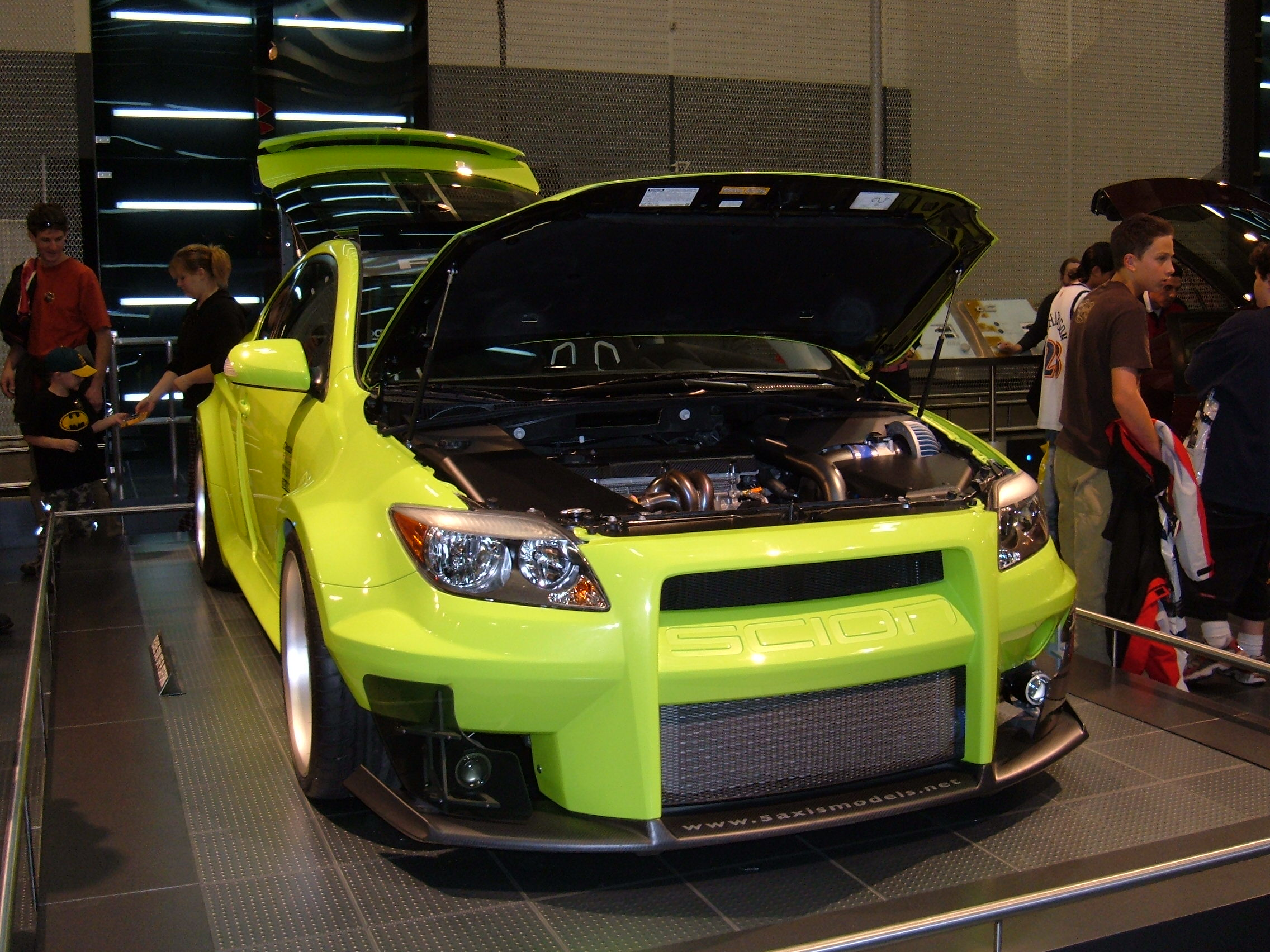 A customized Scion tC (By 5 Axis...a wheel manufacturer) at the 2004 San Francisco International Auto Show.